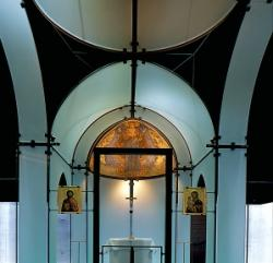 photo taken with permission of Museum